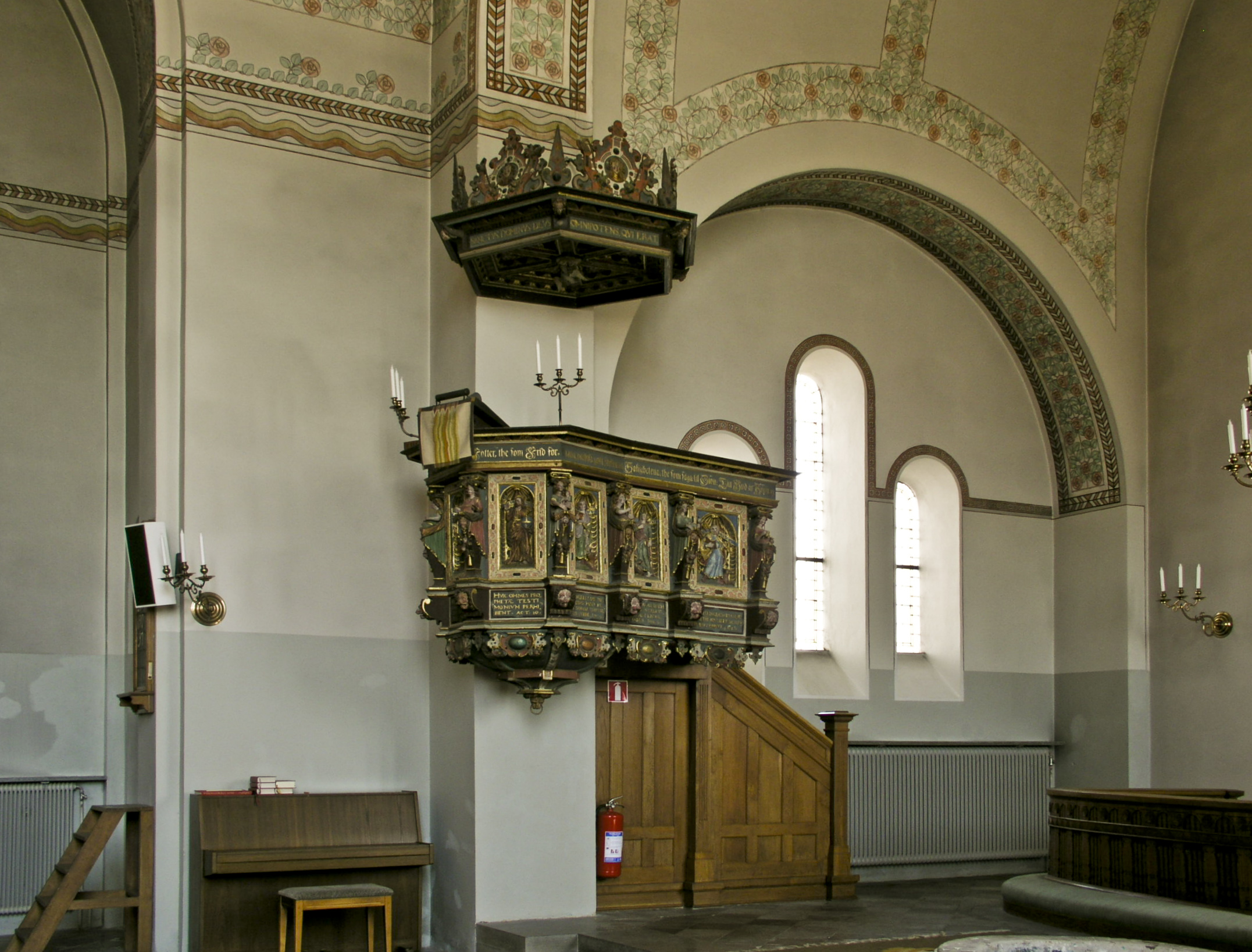 Valleberga kyrka/church. Pulpit